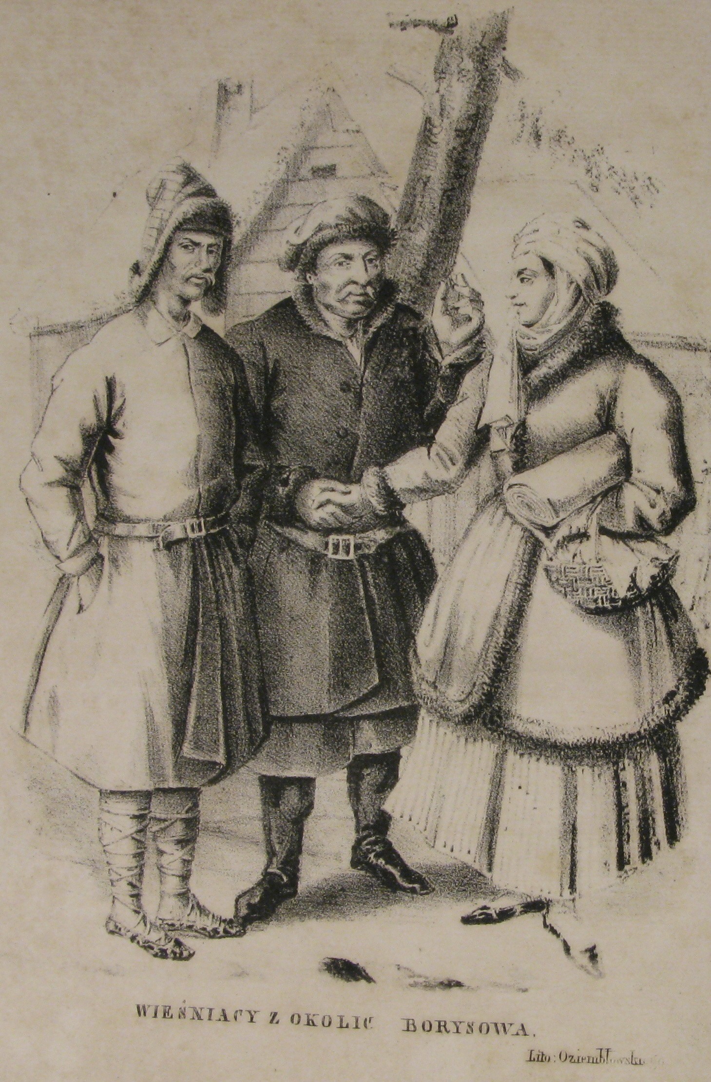 a engraving "Peasants from the villages near Borisov town " by Józef Oziębłowski (1805-1878). Before 1847 AD. (Russian empire, Minsk region, Borisov district)